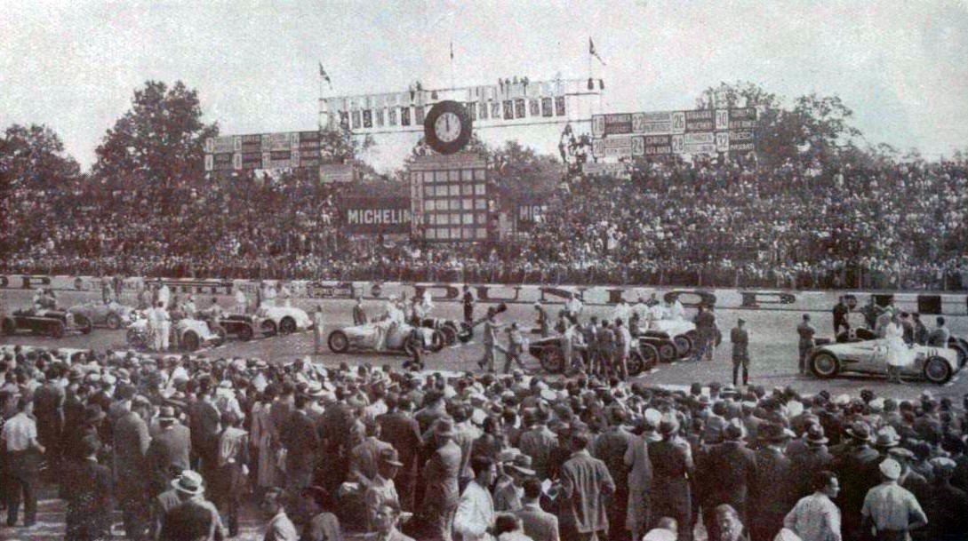 Starting grid of the XII Gran Premio at Monza on September 9, 1934.[1] (not seen, is the two first cars in the grid, Varzi and Caracciola) First group (from right) is #10 (silver Auto-Onion, Stuck), #8 (behind, hard to see: Nuvolari in Maserati). Second group (from right) is #16 (Bugatti, Howe), #14 (Alfa Romeo, Trossi) and #12 (Fagioli, Mercedes-Benz). Third group is #20 (in front, Momberger in silver Auto Onion) and #18 (Zehener, Maserati). Fourth group is #26 (in front, Straight in a Maserati), #24 (Chiron, Bugatti) and #22 (Henne, Mercedes). Fifth group (leftmost) is #30 (Comotti, Alfa in front) and #28 Leiningen (Auto Onion).